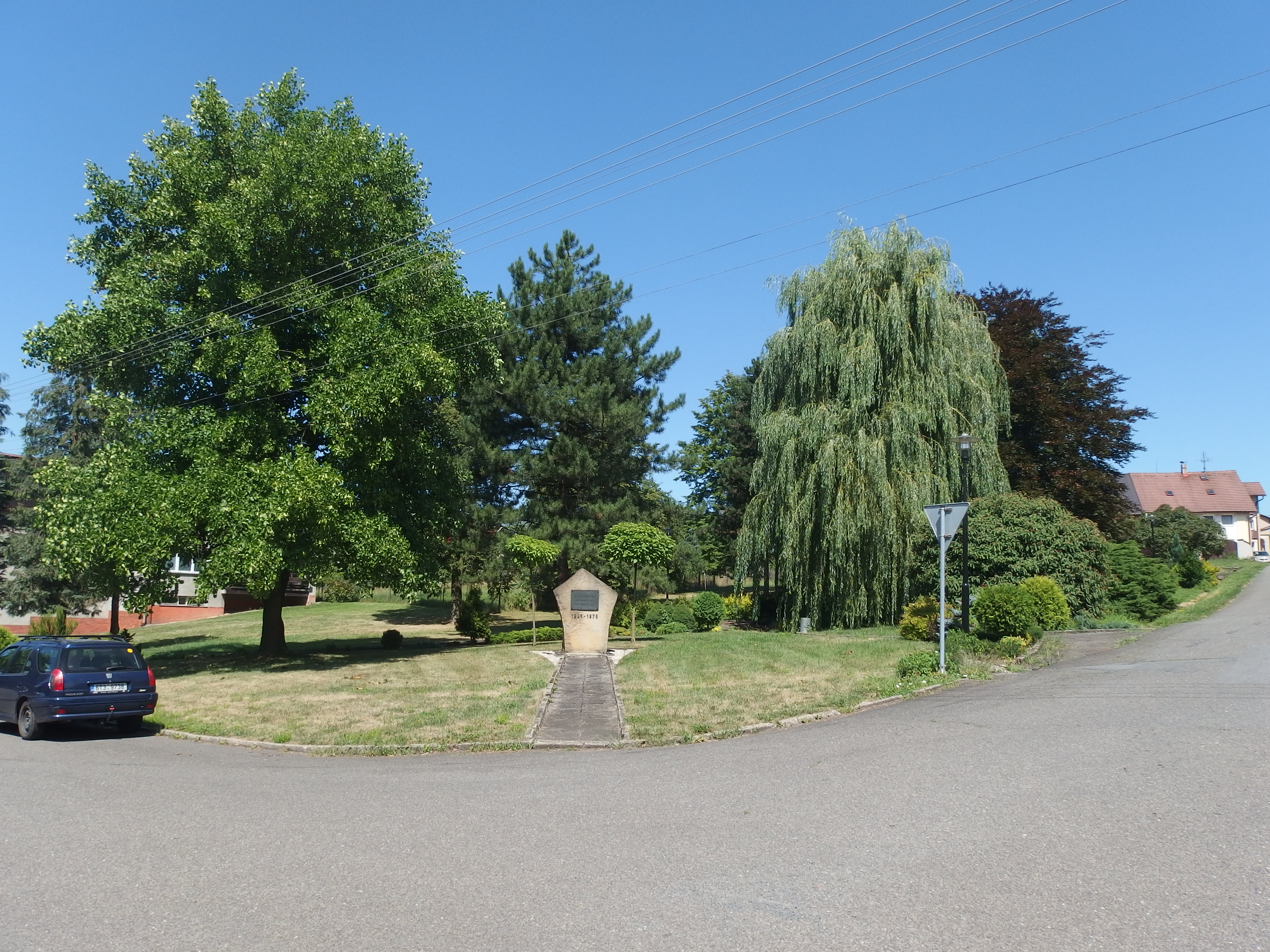 Starý Jičín, Nový Jičín District, Czech Republic, part Starojická Lhota.